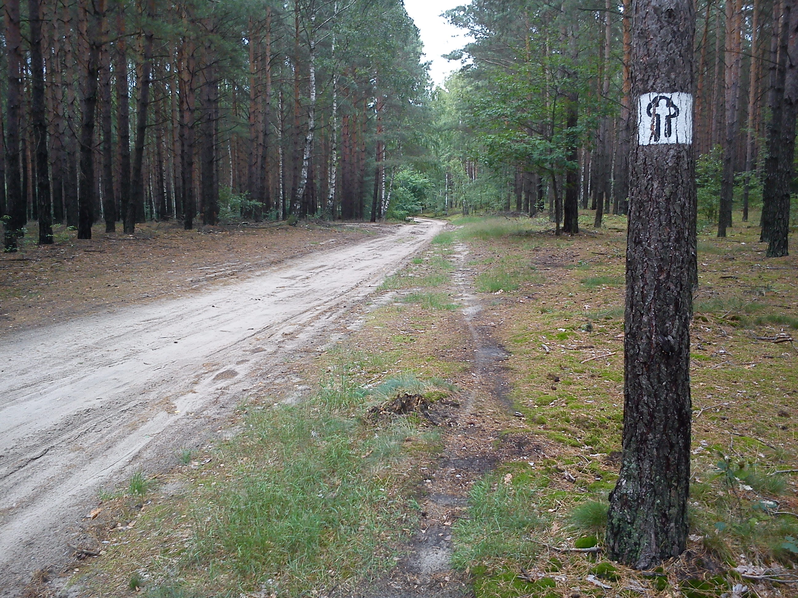 Cistercian Trail in Zielonka Forest.